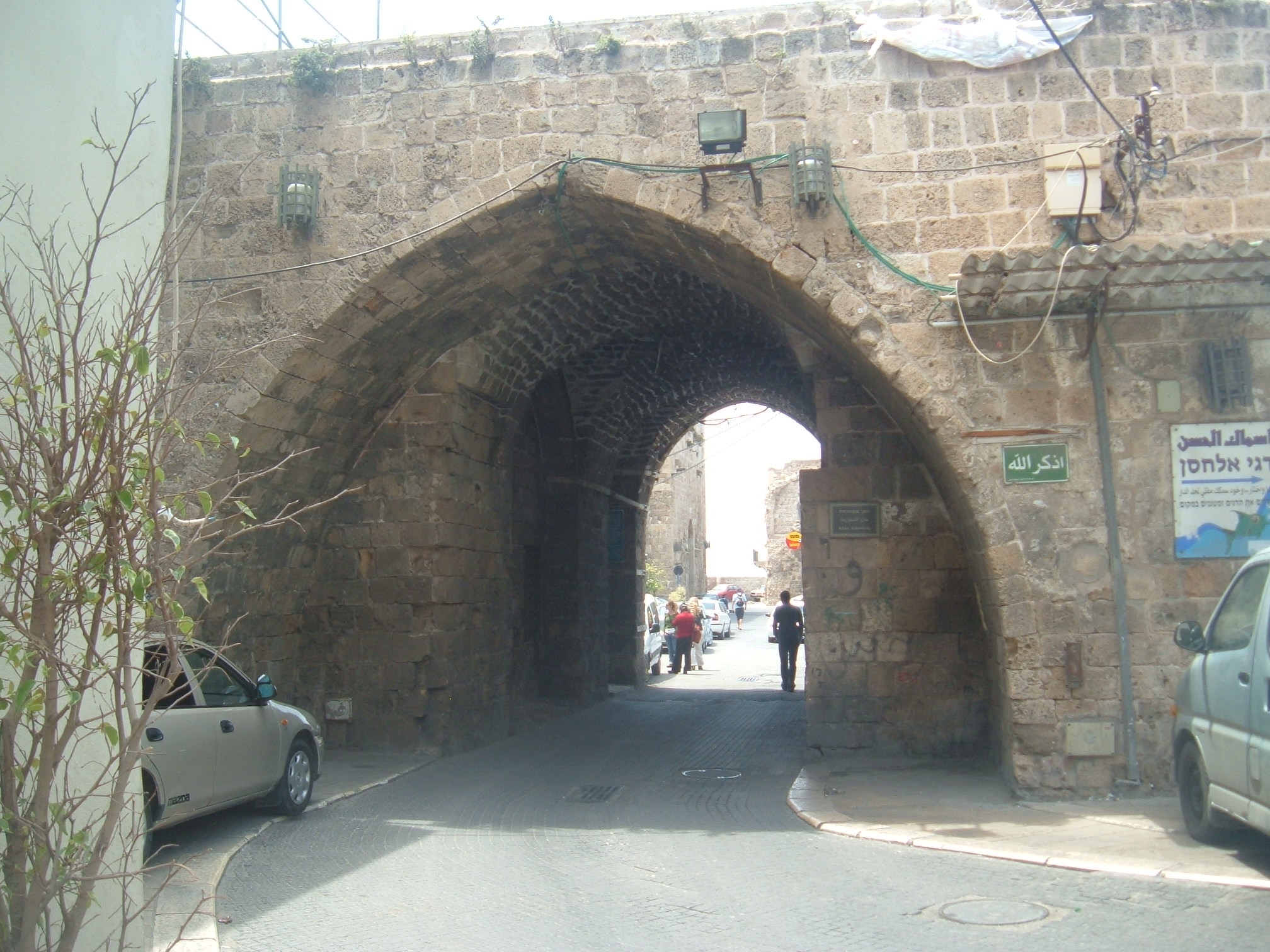 entrance to khan el schwarade, acre Israel.